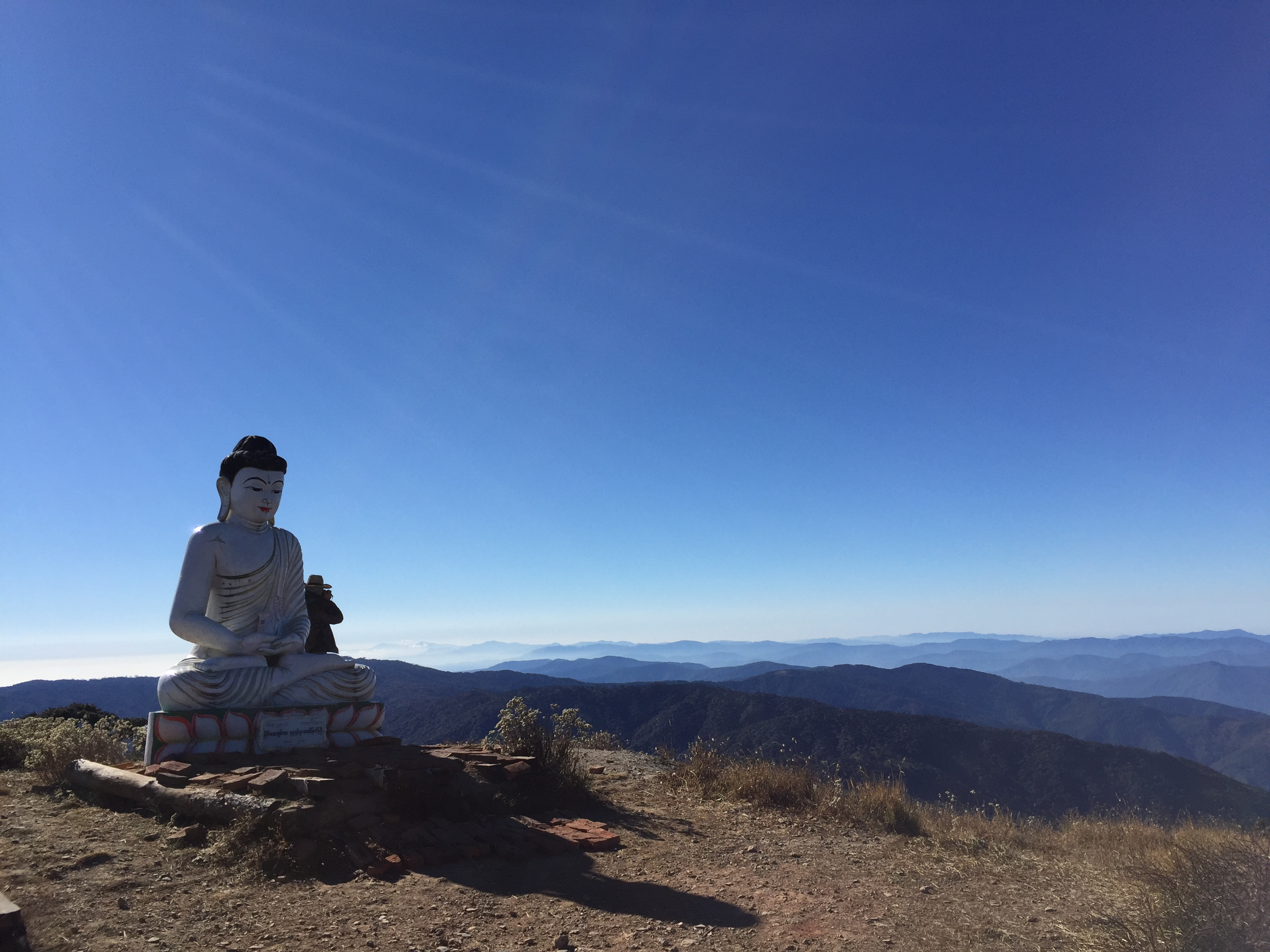 Nat Ma Taung Summit1 မြန်မာဘာသာ: နတ်မတောင်ထိပ်ပေါ်မှ ဗုဒ္ဓဆင်းတုတော်